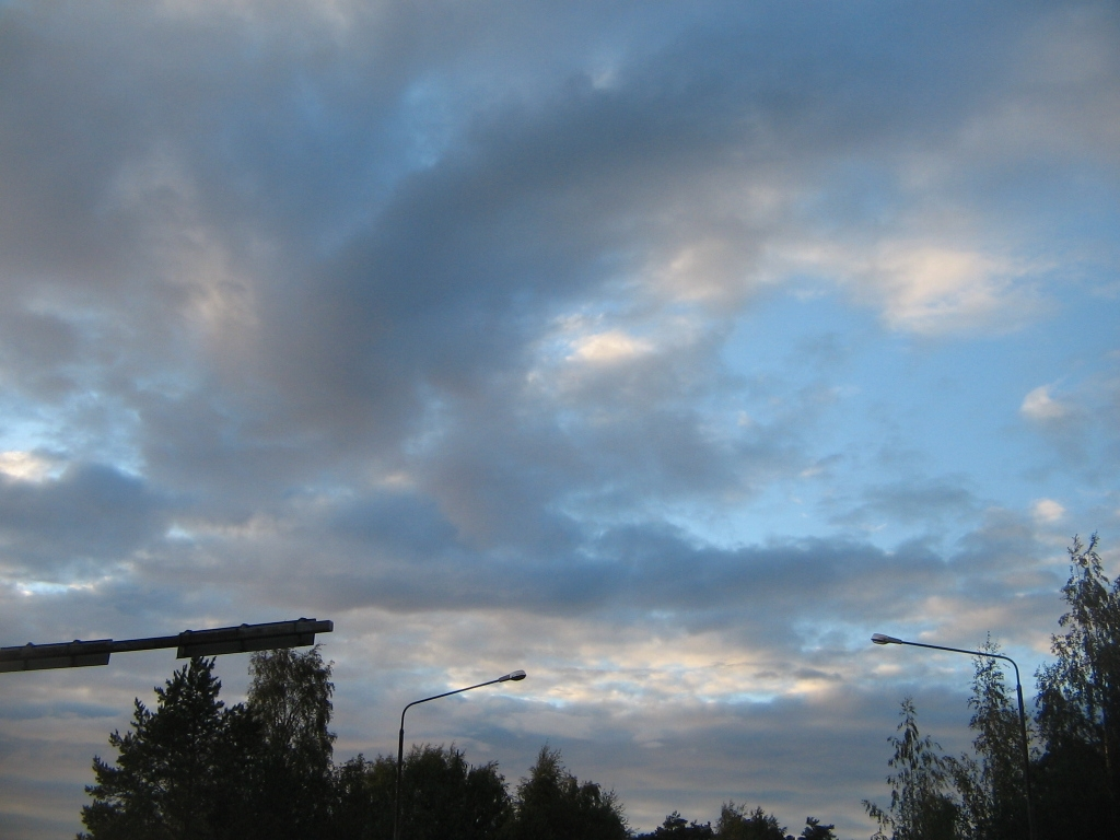 Stratocumulus clouds on evening after cold front.